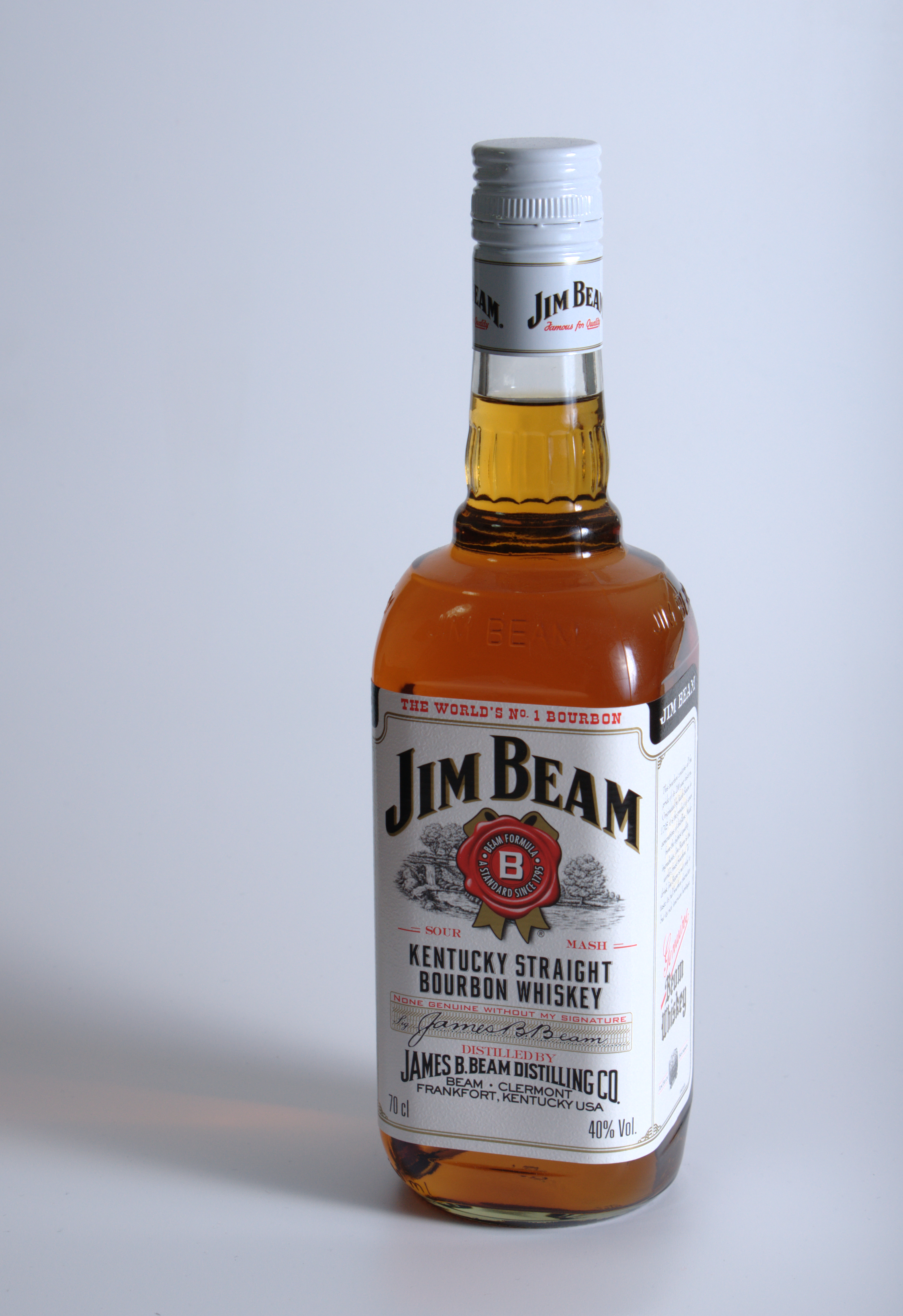 A bottle of Jim Beam Whiskey